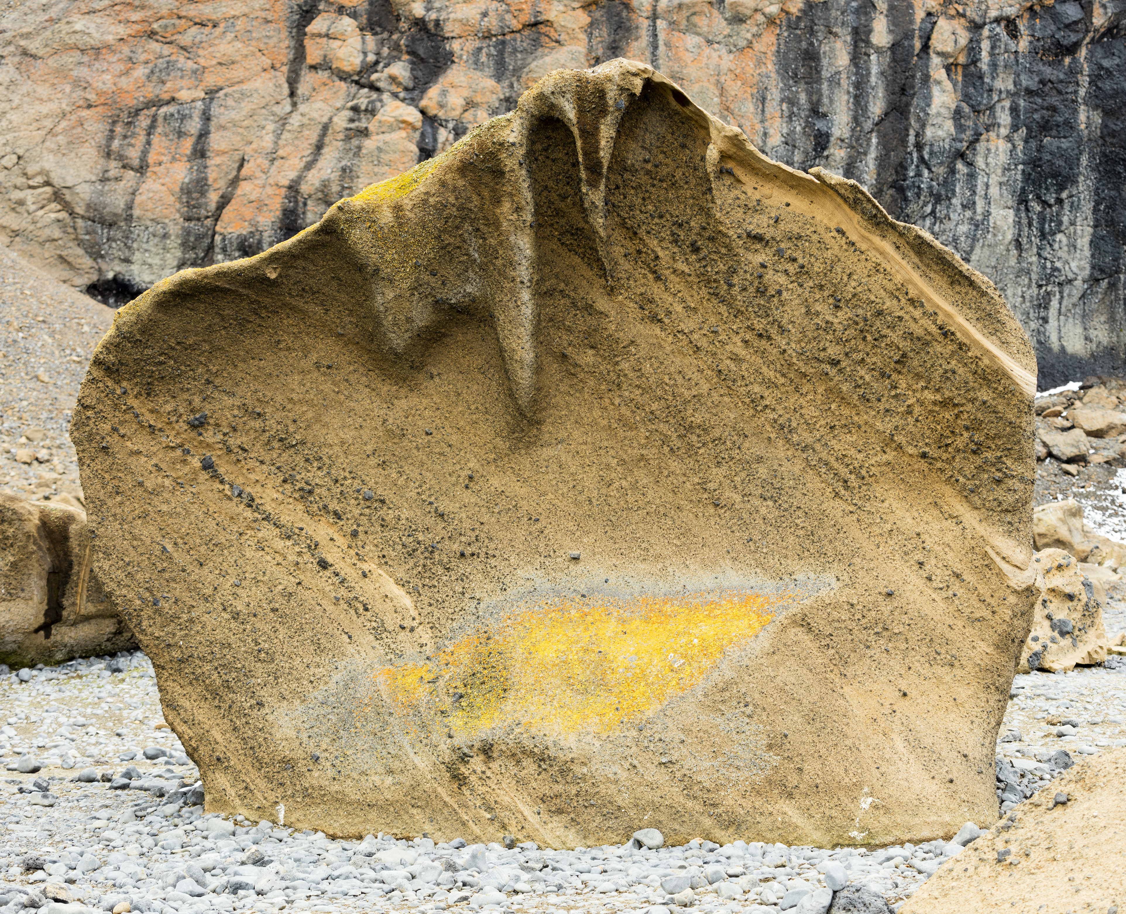 Block of tephra, at Brown Bluff, Tabarin Peninsula, Antarctic Peninsula. To give an idea of scale, the height at the center of the object is at least 6 ft (1.8 m). Per Skilling, I. P. (1994). Evolution of an englacial volcano: Brown Bluff, Antarctica. (not publicly available on line, and I was only able to read the first two pages), it appears to be "alkali basaltic" in composition (at least the Brown Bluff tephra in general appears to be), I think this is referring to the darker solid chunks contained in the lighter matrix material.